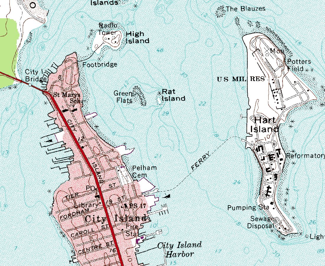 Crop from US Geological Suvey, Flushing NY 7.5 minute topo series, 1966 edition. Intended to illustrate Green Flats Reef (New York)